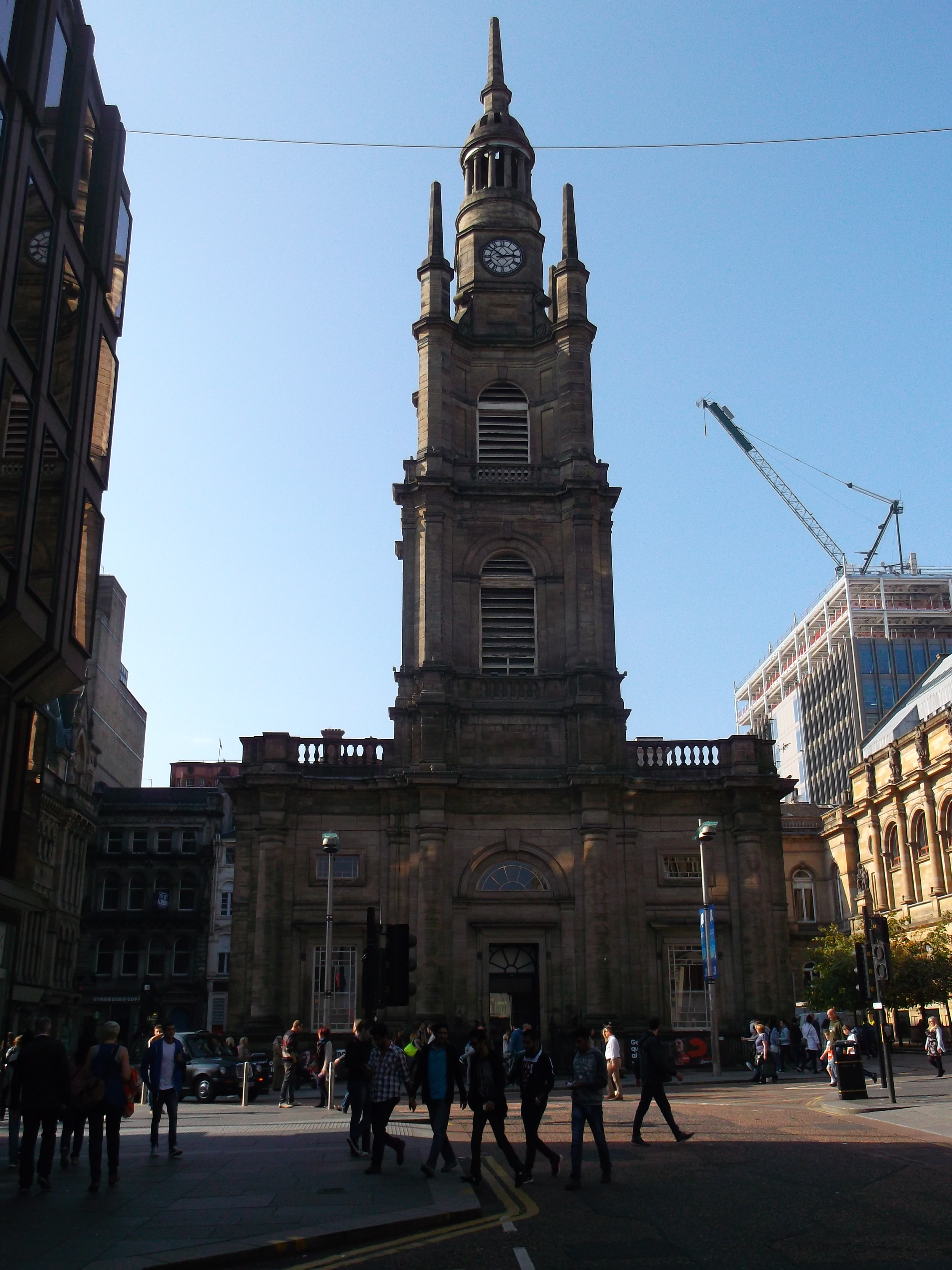 St George's Tron Church, 163 Buchanan Street, Glasgow G1 2JX. Built in 1807 to a design by William Stark. Wikidata has entry Q17568178 with data related to this building.